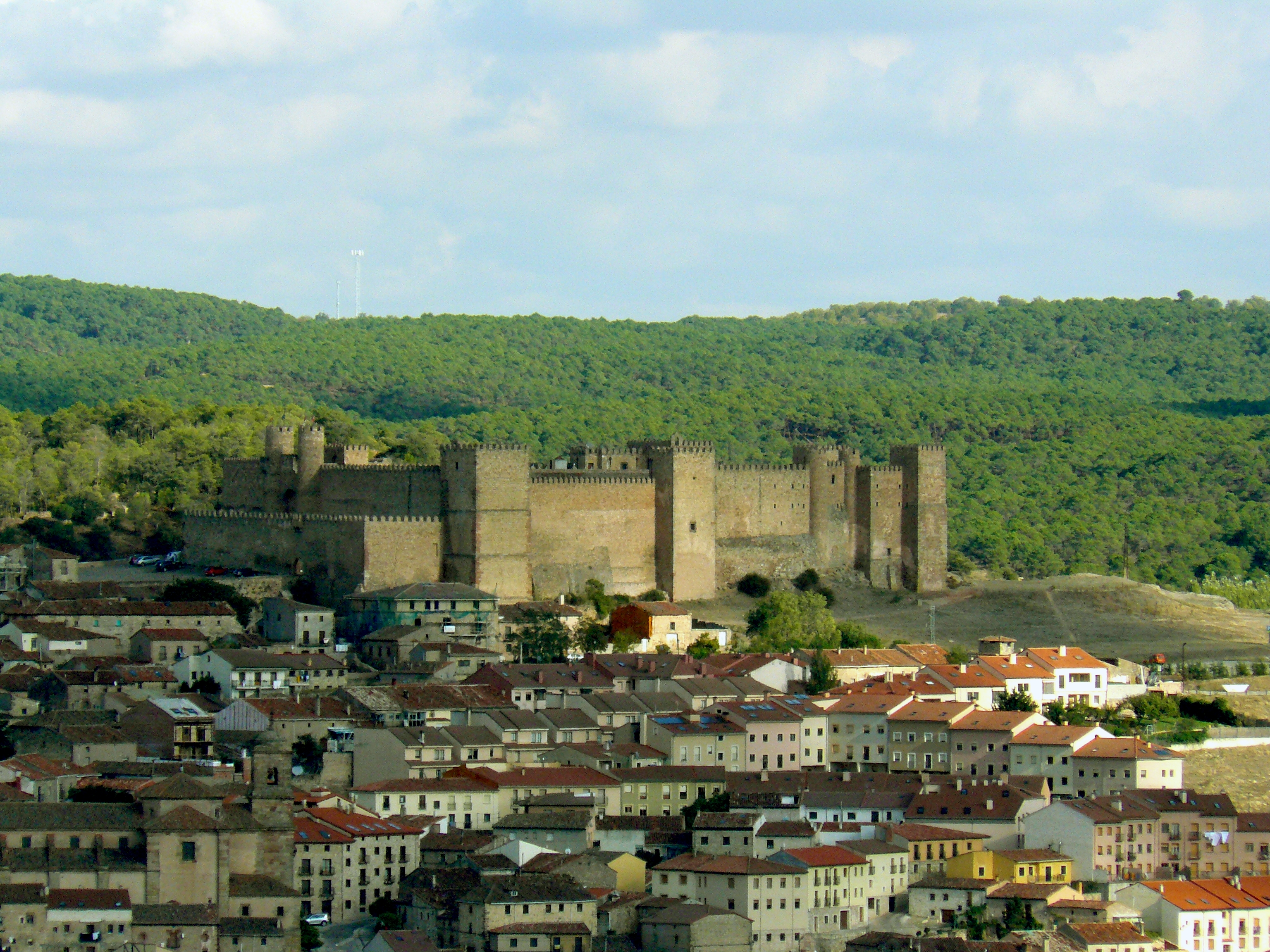 Western view of the castle of Sigüenza, Guadalajara (Spain).